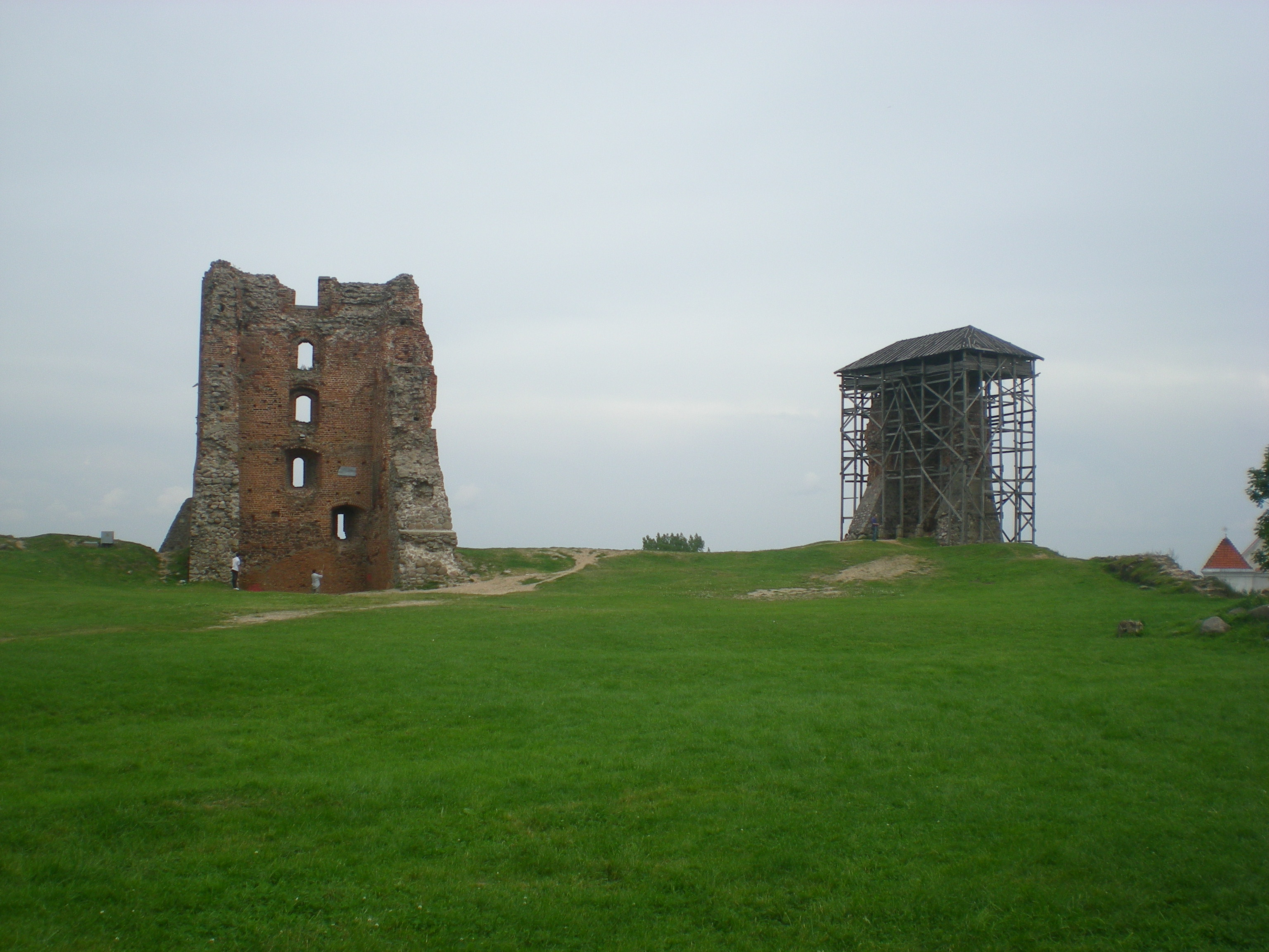 Беларуская (тарашкевіца): Рэшткі замка. г. Наваградак This is a photo of Belarusian heritage monument. Reference number: 411Г000404 ( WLM)